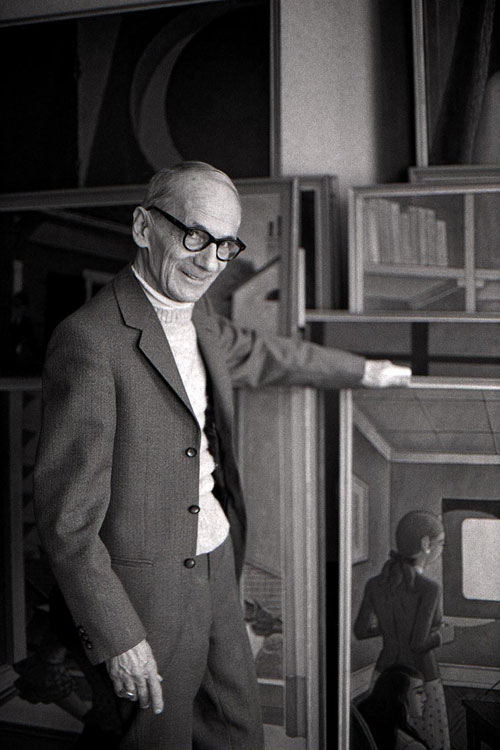 Portrait of Emile Chambon, Swiss painter and illustrator